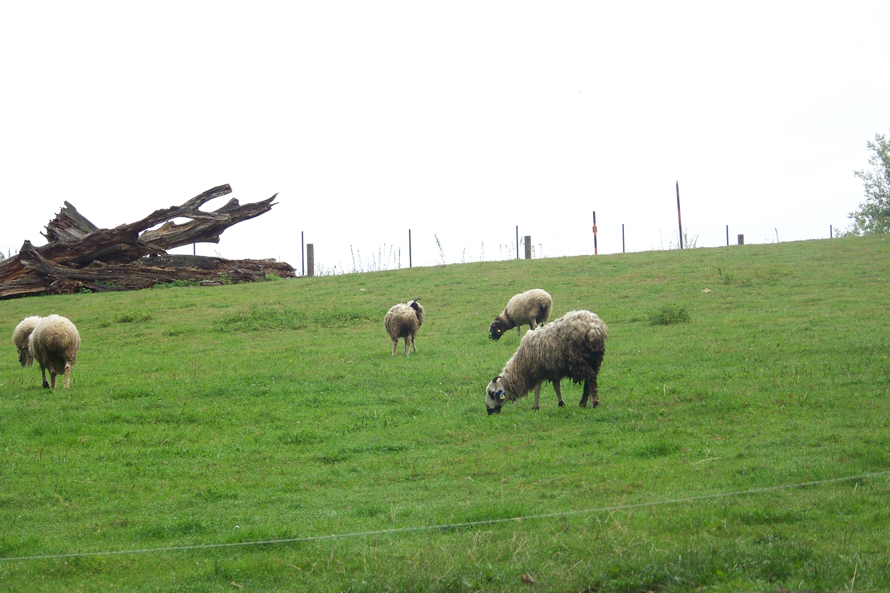 A few of mongolian breed of sheep in Zoo Ostrava.